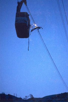 Figure with fire works from a cable car during the Olympic Games 92 at Val d'Isère by Thierry Devaux.